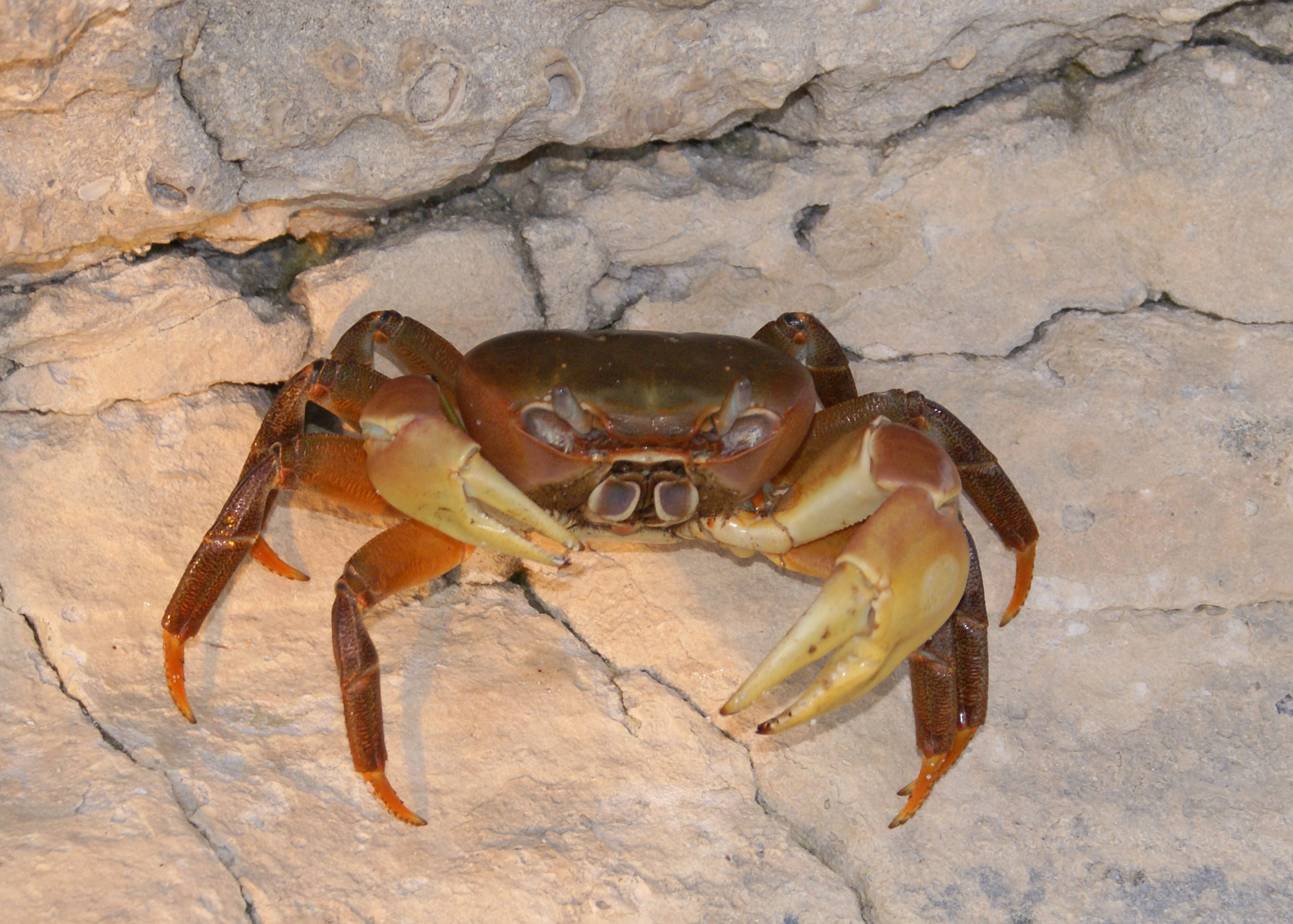 Land crab on Europa Island